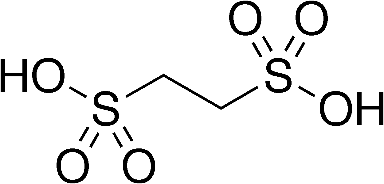 chemical structure of ethanedisulfonic acid